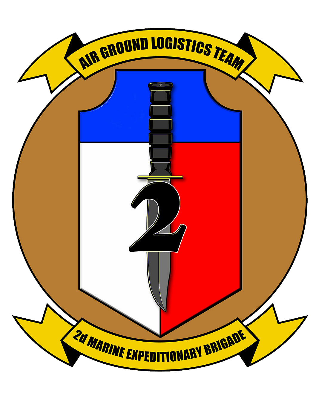 Unit insignia of the 2d Marine Expeditionary Brigade, United States Marine Corps.